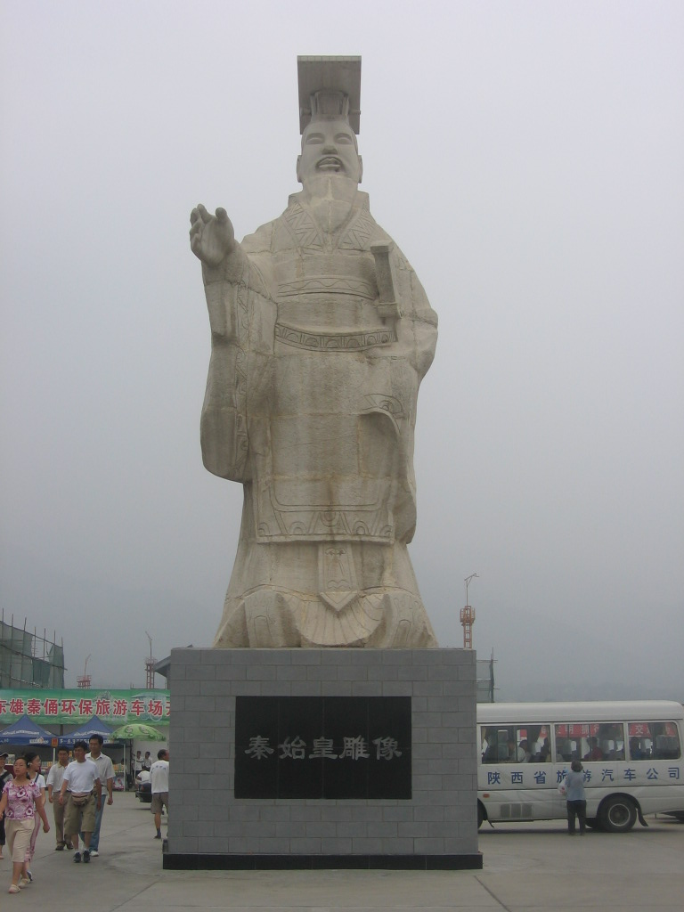 Marble statue of Emperor Cin Shihhuang, the first emperor of China, near the terracotta army of Xi'an, which was originally built to accompany his tomb.